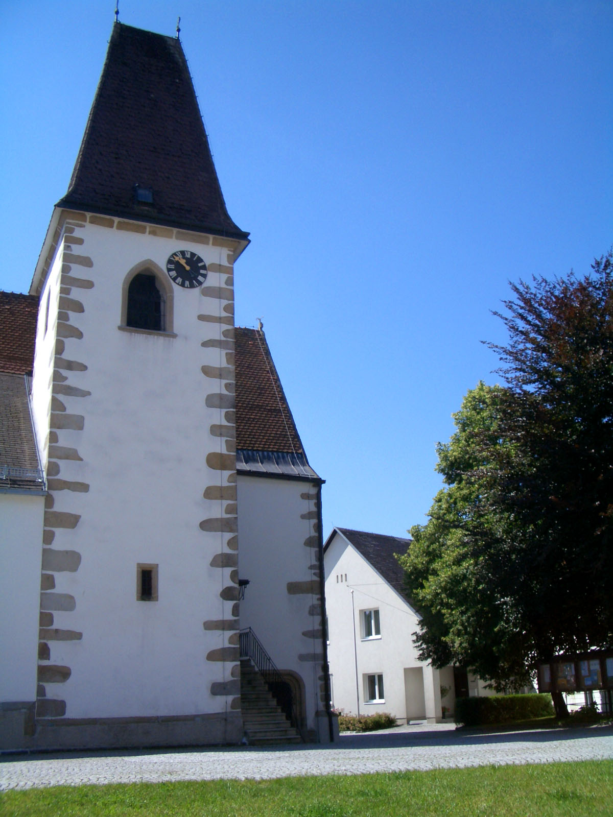 St. Jakob Church in Schönau im Mühlkreis (Upper Austria)